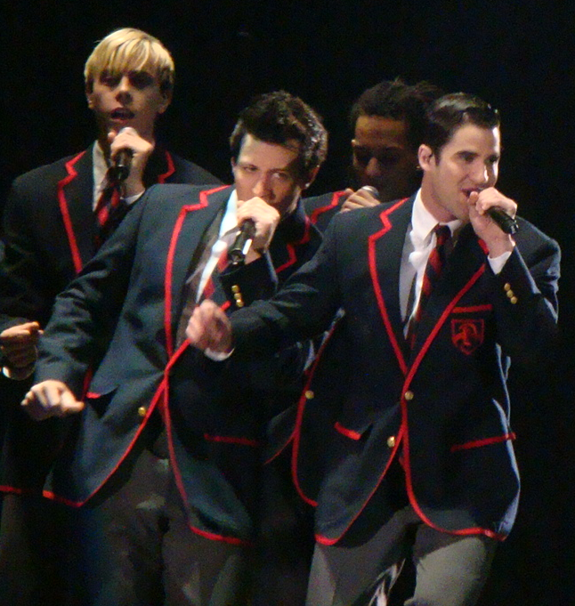 Darren Criss and the Dalton Academy Warblers performing on the Glee Live! In Concert! tour in June 2011